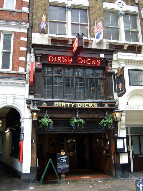 Dirty Dick's This pub in Bishopsgate has a long history. It was originally called The Jerusalem but at some point it was renamed after an eccentric C18 warehouseman, one Richard, or Nathaniel, Bentley. After his fiancee died the night before their wedding (it is said that Dickens modelled Mrs Haversham on him) he allowed himself and his business to fall into neglect and decay to such an extent that a parcel addressed to 'Dirty Dick, London' would be delivered to his premises close by. The pub benefited from the notoriety and for many years retained a display of dirty dishes, cobwebs and dead cats to illustrate the story.